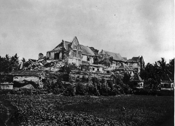 The ruins of the Panggung building on the former island Pulau Kenanga in the Tamansari section of the Kraton complex. The Tamansari water castle was originally meant to be a recreation-ground for the Sultan's family. (G. Knaap 1999)